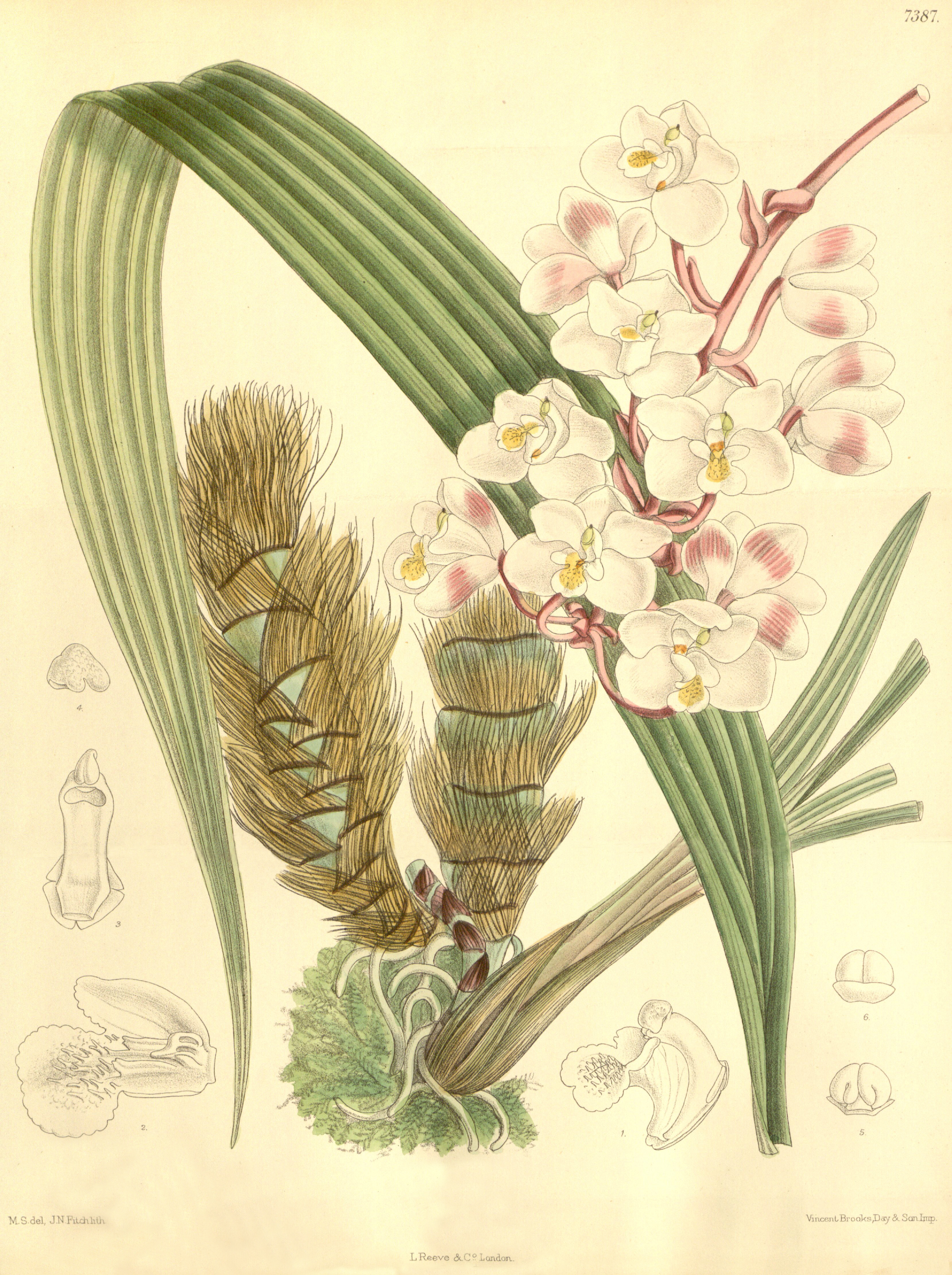 Illustration of Eulophiella elisabethae